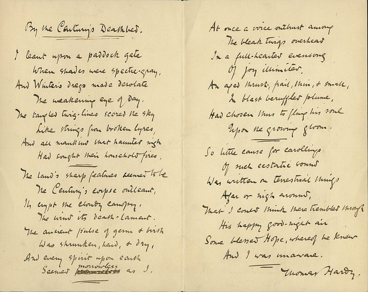 The darkling thrush [here entitled "By the century's deathbed"], Dorchester, 1899-1900 : autograph manuscript signed.